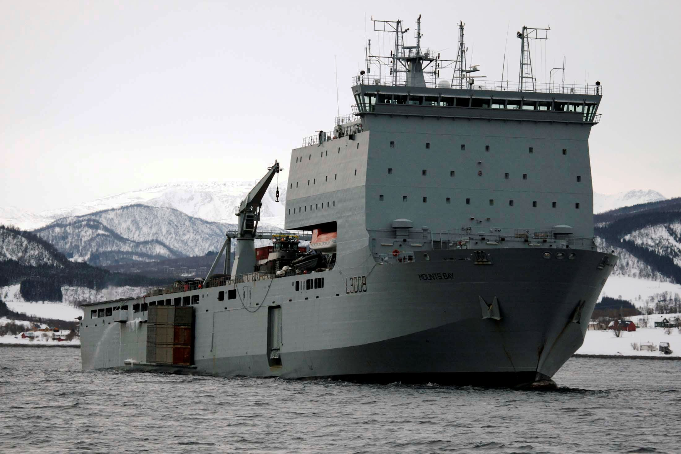 The British auxiliary landing ship dock RFA Mount's Bay (L3008) participates in an amphibious assault demonstration with U.S. Marines as part of exercise Cold Response (CR) 2010 Feb. 22, 2010, in Norway. CR 2010 is a Norwegian armed forces-sponsored multinational invitational exercise focused on cold weather maritime/amphibious operations. Participants include forces from Great Britain, the Netherlands, Sweden, Finland, Germany, Austria and other NATO partners.